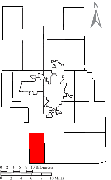 Made by the US Census and altered by myself to highlight the township